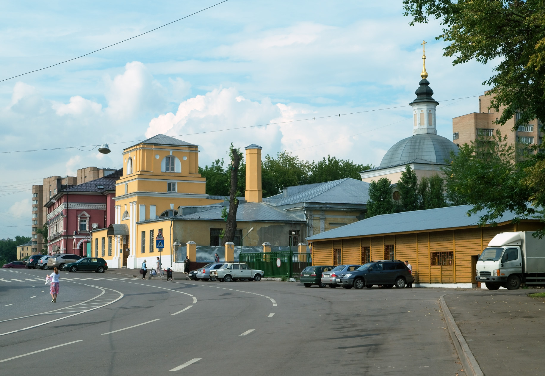 Krestyanskya Square in Moscow - the Church of Forty Martyrs